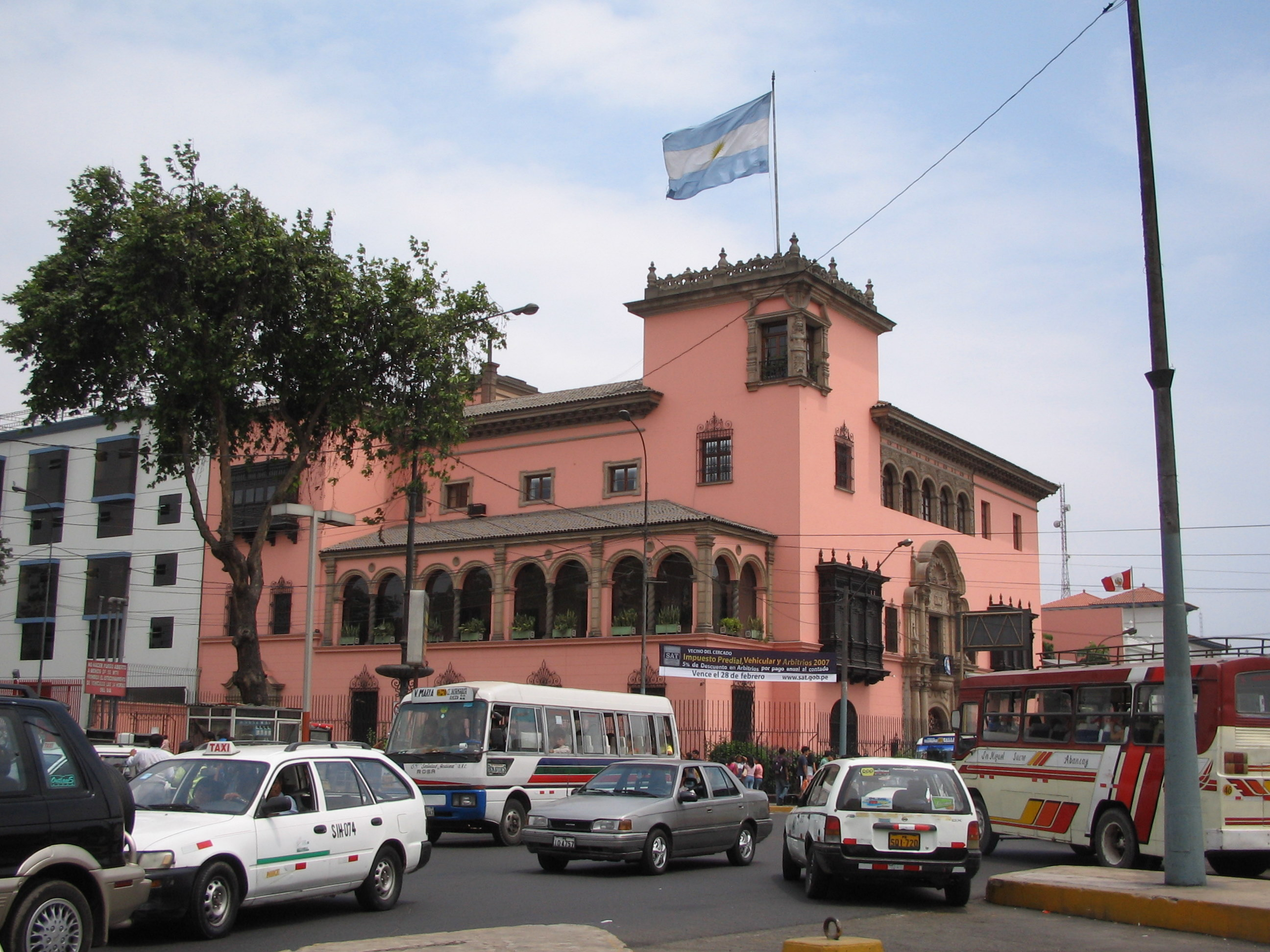 Embassy of Argentina in Lima.